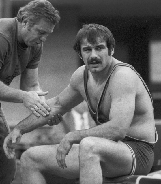 “Wrestler Ilya Mate during a match break”. 1980 Olympic champion in Wrestling freestyle 100 kg category Ilya Mate of the USSR during a match break. XXII Summer Olympics. CSKA Sports Complex in Moscow.